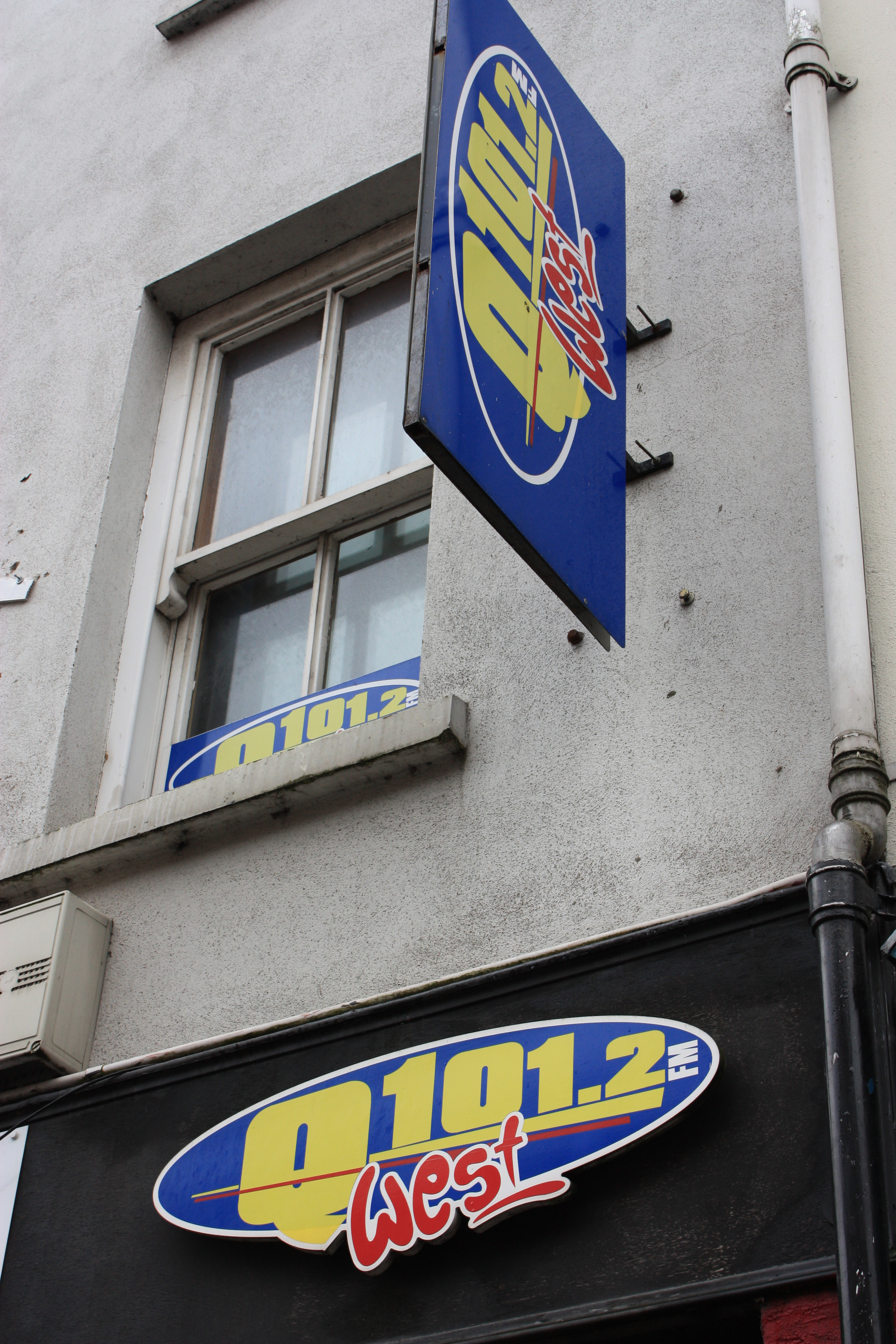 Q101.2 FM West radio station, Market Street, Omagh, County Tyrone, Northern Ireland, January 2010